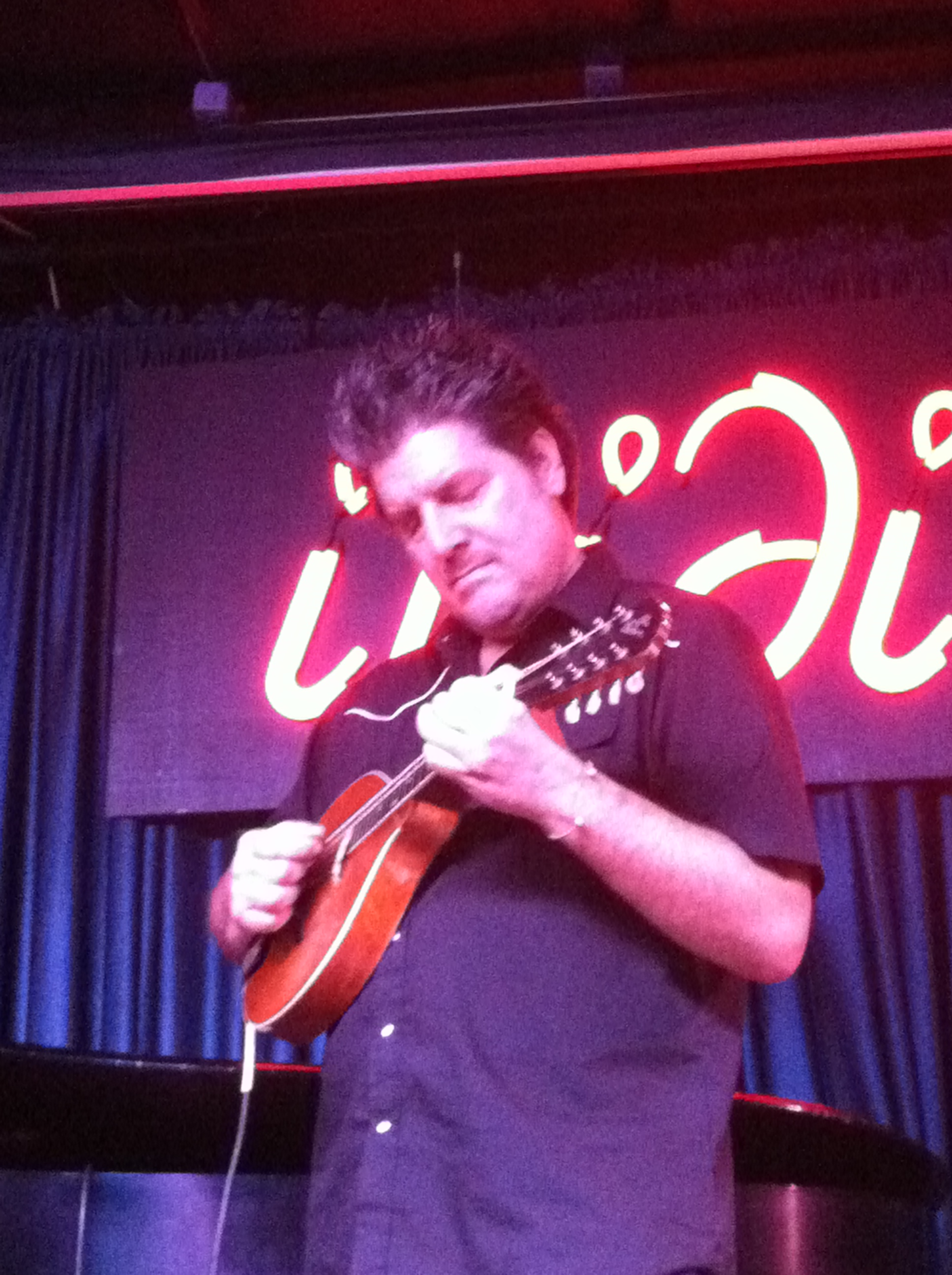 David Immerglück in October, 2012, at the Iridium Jazz Club